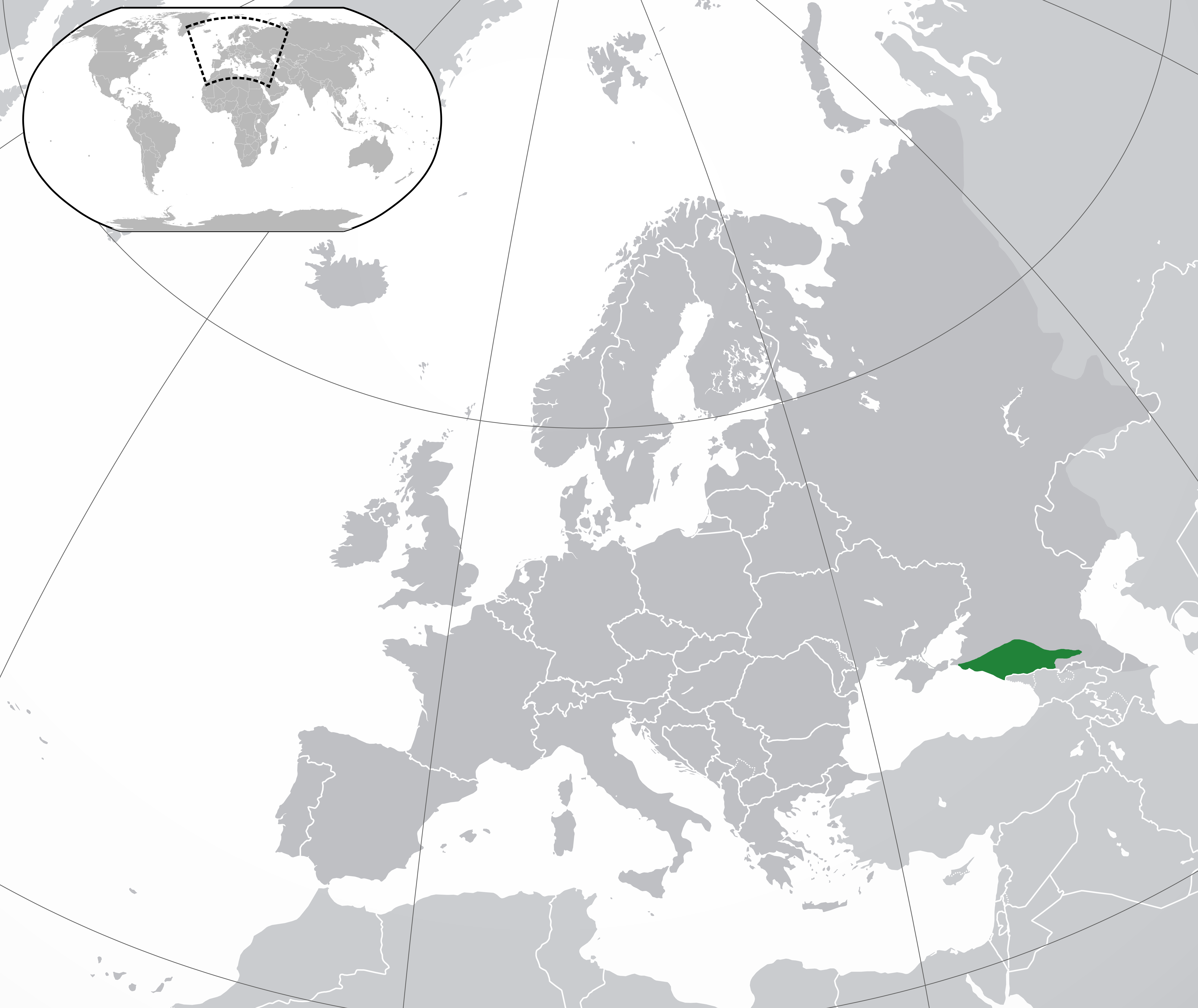 Circassian Lands